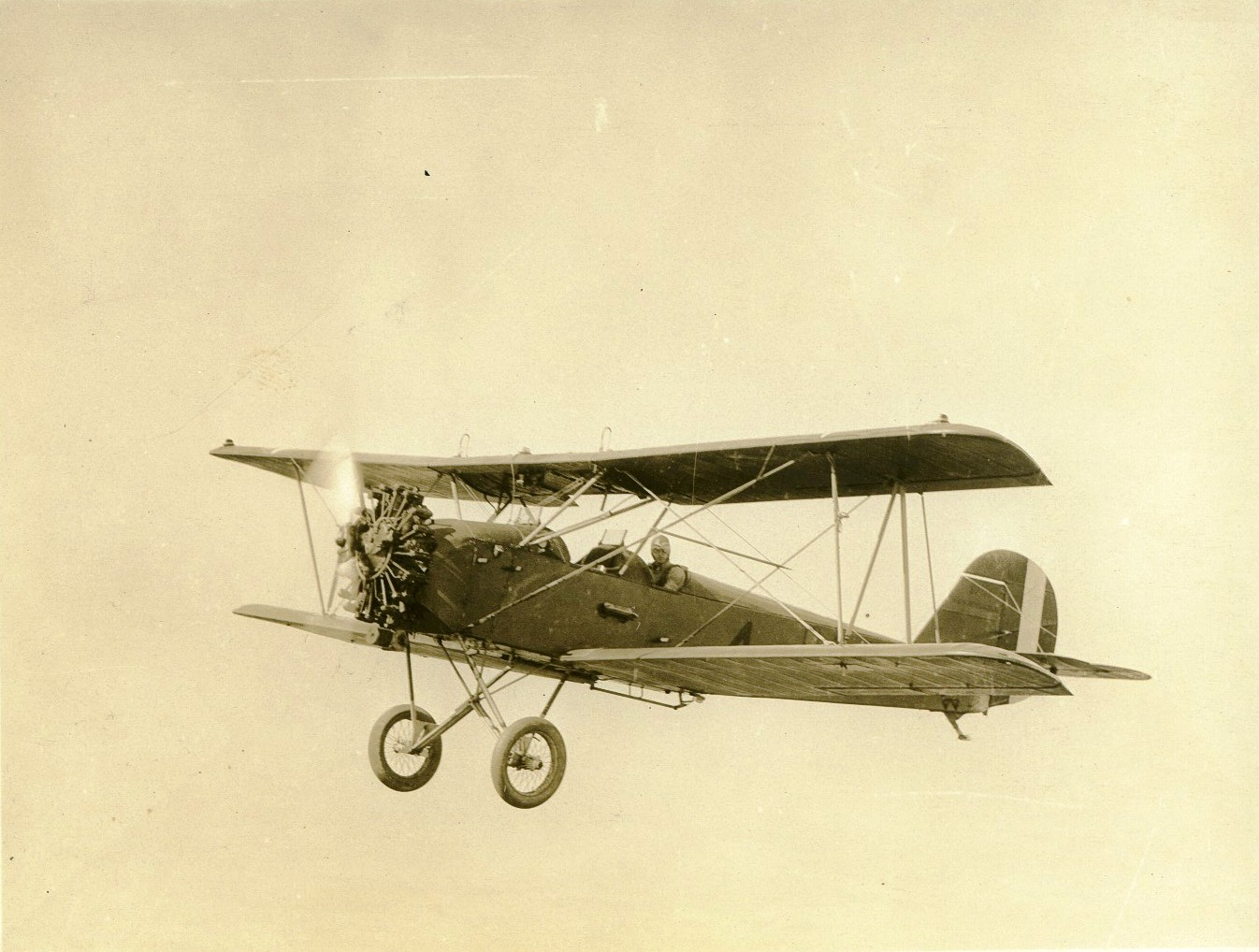 "NY-1, Primary training plane". From the Avery R. Kier Collection (COLL/3871) at the Marine Corps Archives and Special Collections OFFICIAL USMC PHOTOGRAPH